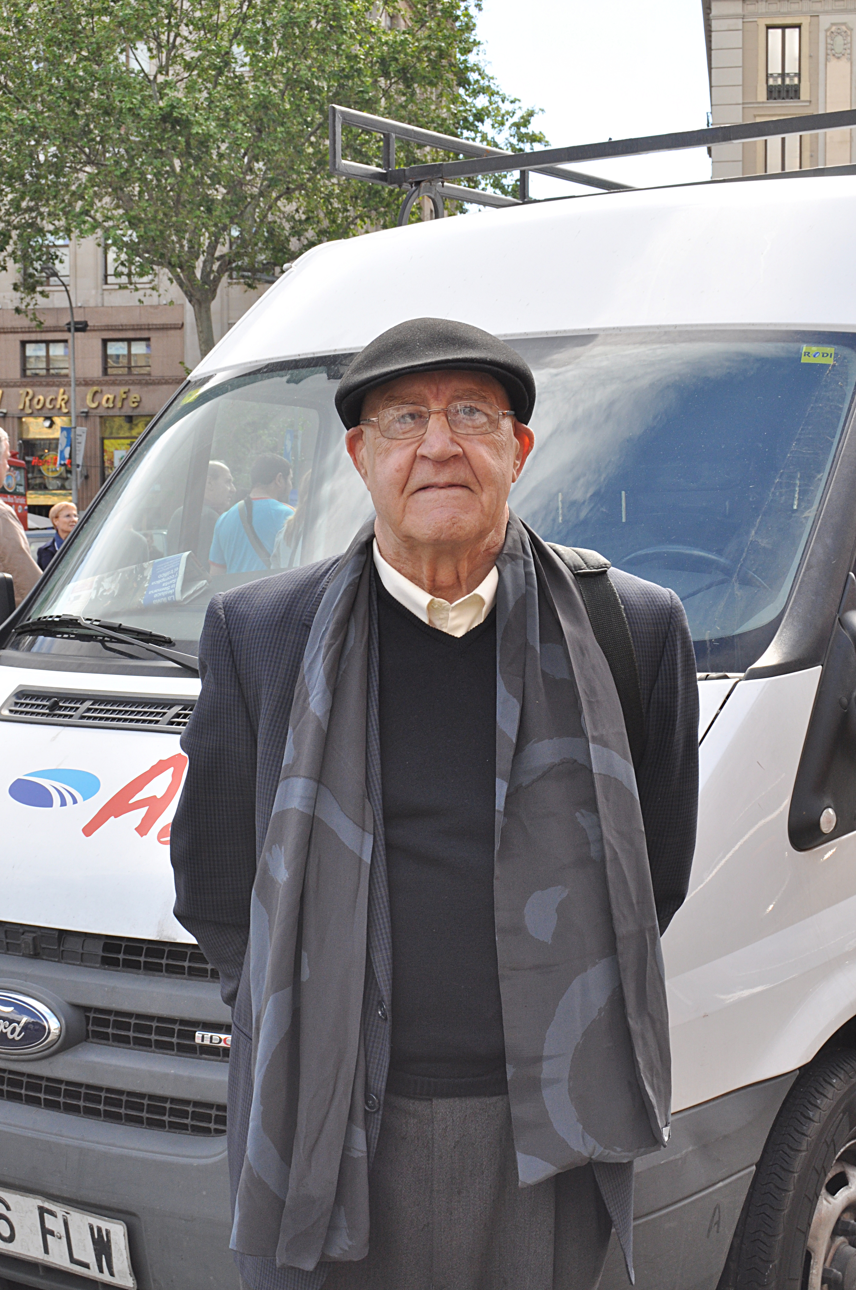 Emili Teixidor i Viladecàs in Plaça de Catalunya of Barcelona (Diada de Sant Jordi 2011).